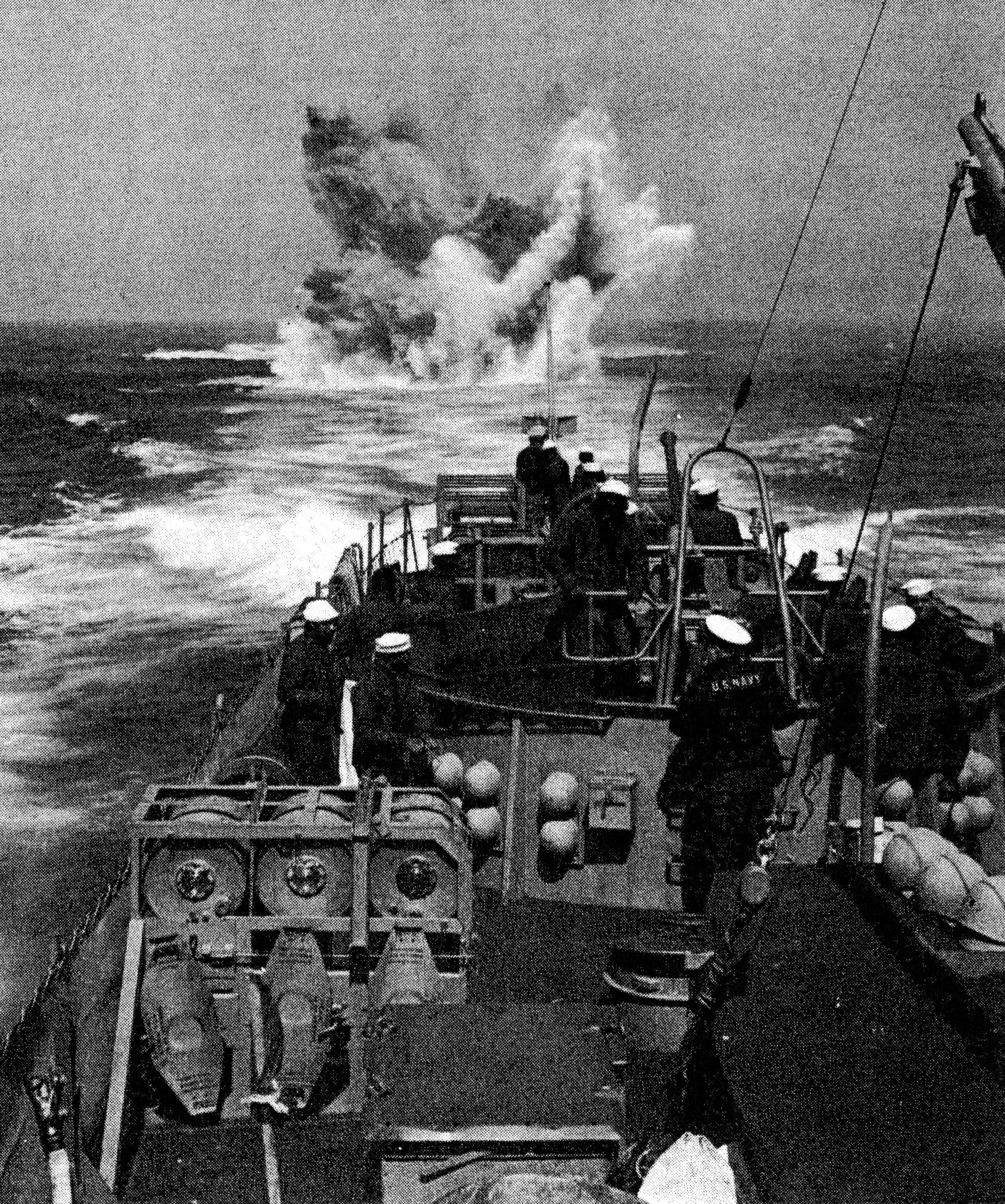 A depth charge explodes astern, as the crew of the USS PC-1264 practices a simulated submarine attack during the ship's shakedown cruise off southern Florida.